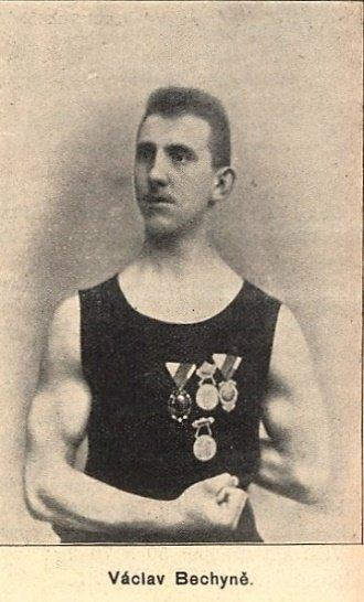 mladší bratr atleta Josefa Bechyně Václav